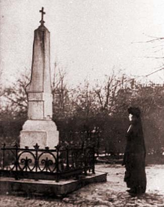 A monument in Kyiv. Demolished during the soviet era